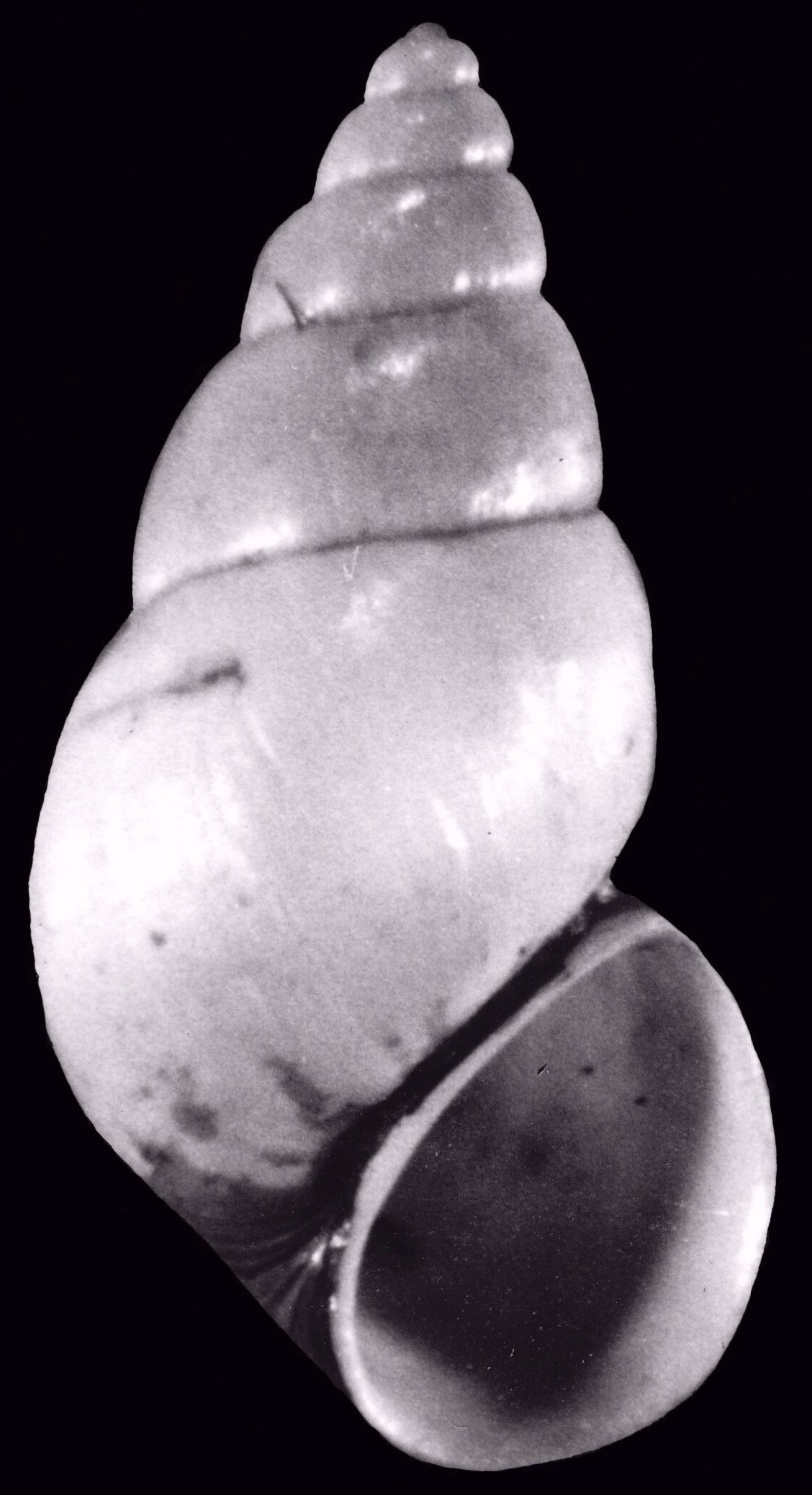 Potamopyrgus antipodarum (Gray, 1843) Slender form collected alife august 1975 in the lake 'Nieuwe Meer', Amsterdam, the Netherlands